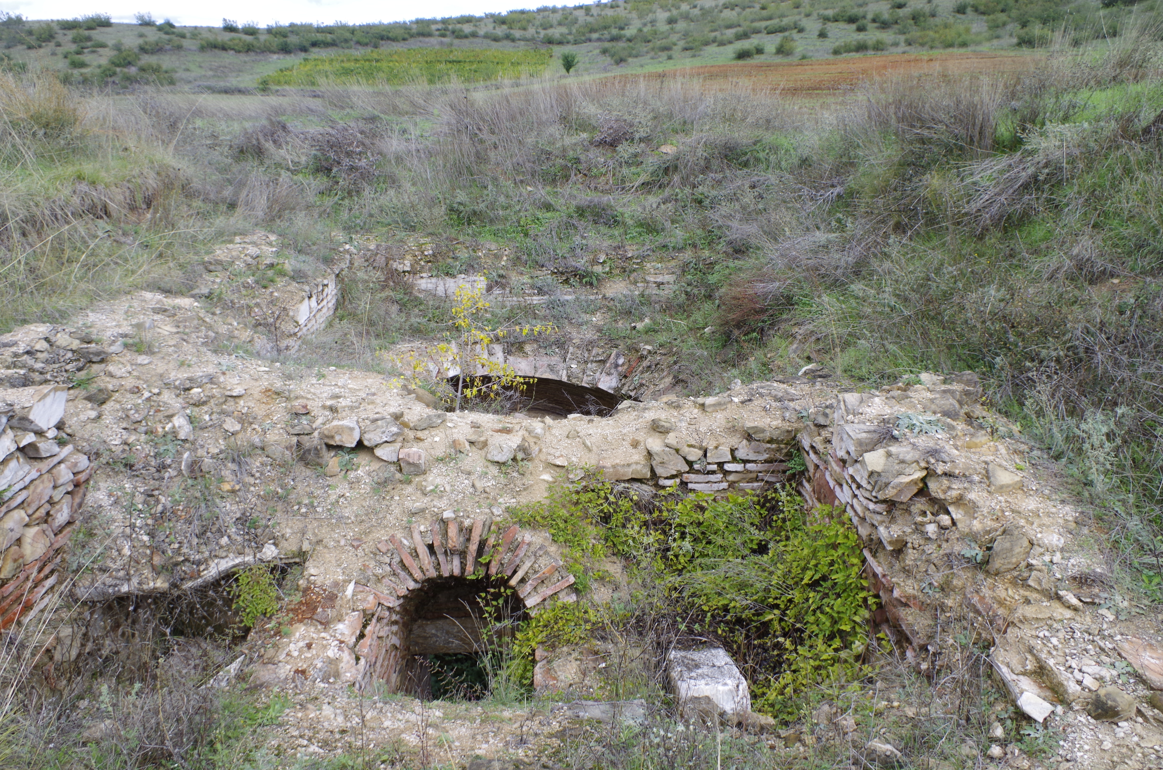 Ancient roman tomb - Hereon, near Čaška, Macedonia